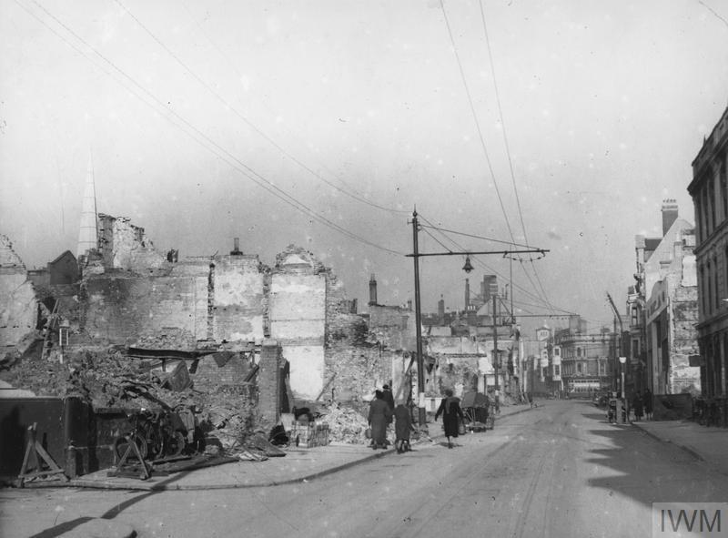 Lower High Street, Southampton after the air raids of 30 November and 1 December 1940.